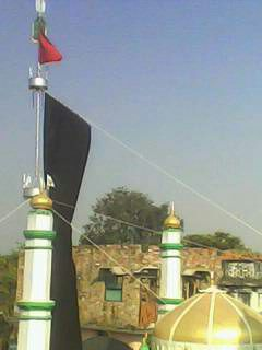 Rauza-e-Hazrat-e-Abbas(a.s.) & Masjid Tilgadiya Buzurg